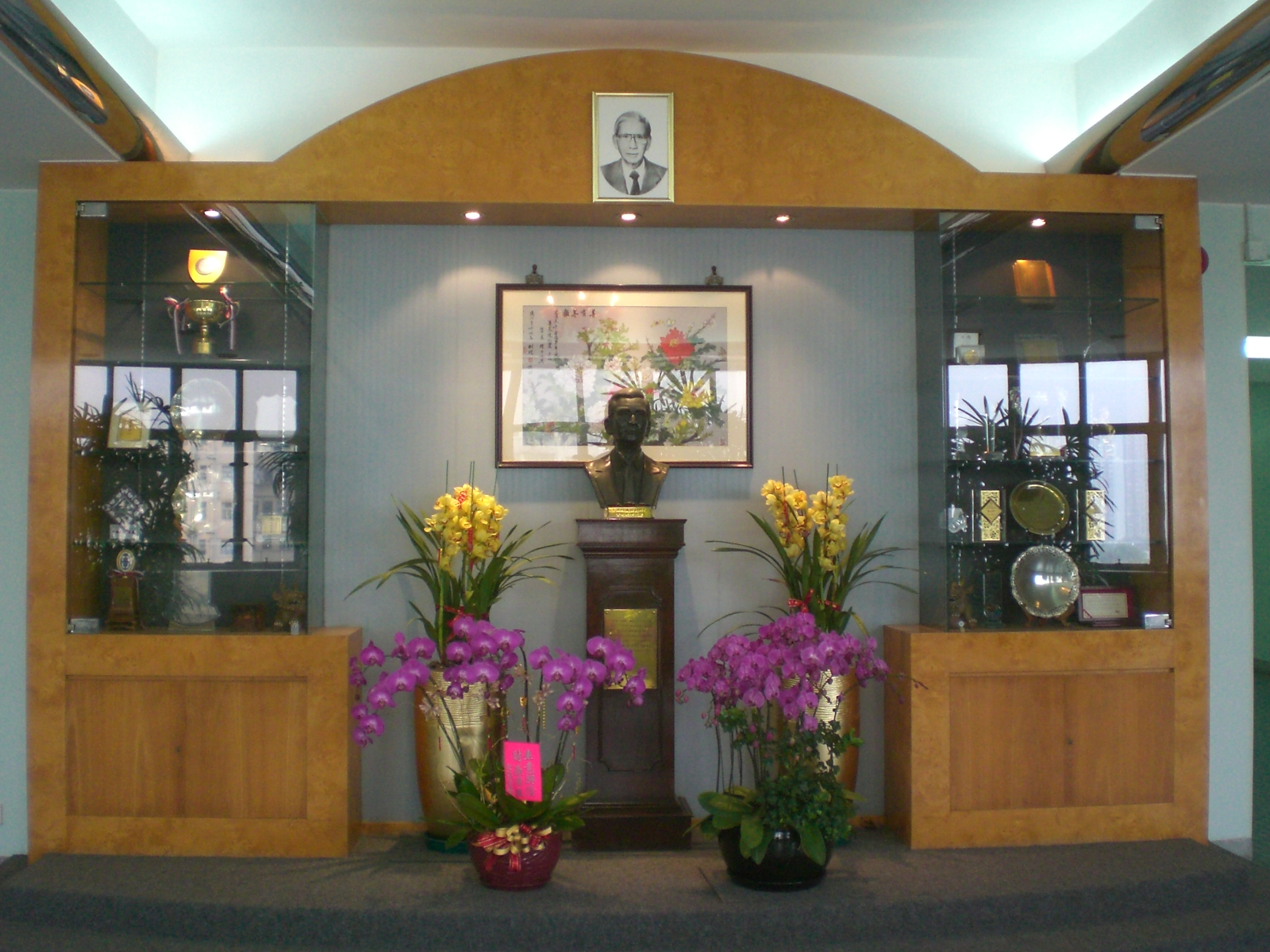 北角香港殯儀館創辦人蕭明